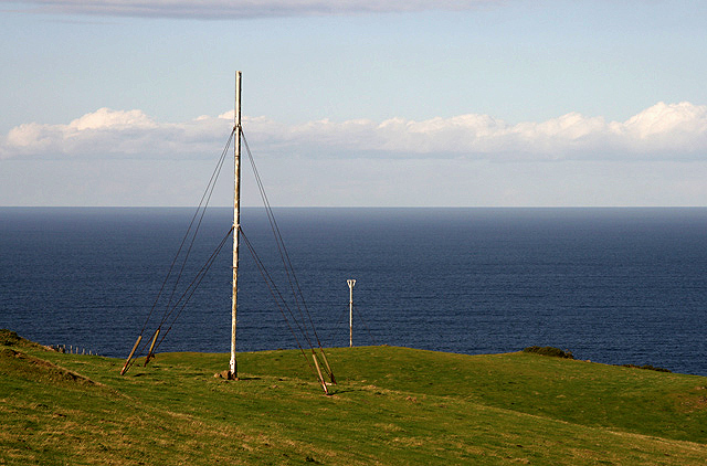 Admiralty Distance Poles at St Abb's Head There are two sets of double poles to the west of St Abb’s Head, positioned one nautical mile apart and marked on the Landranger map as a measured mile. Measured miles were used in the past to test new ships during sea trials. This is the east-south pole with the east-north pole beyond. The west-north and west-south poles are one nautical mile west-northwest on Oatlee Hill.